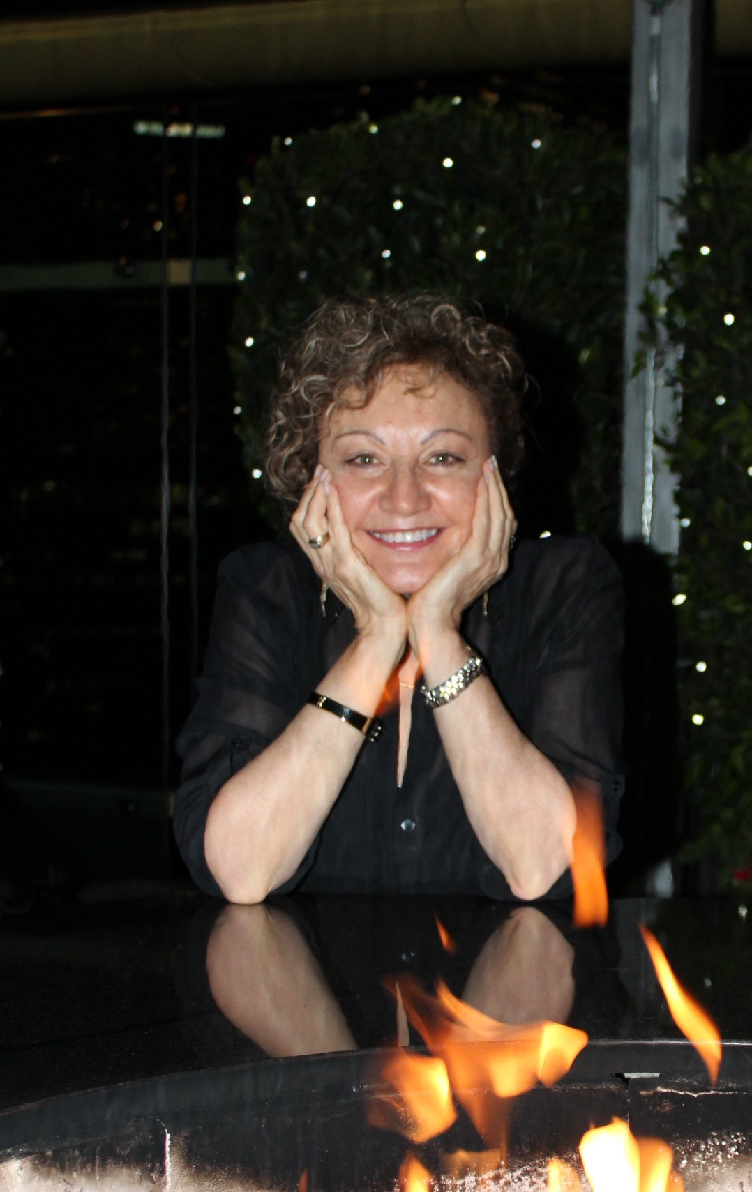 This is a photo of Mabel Katz